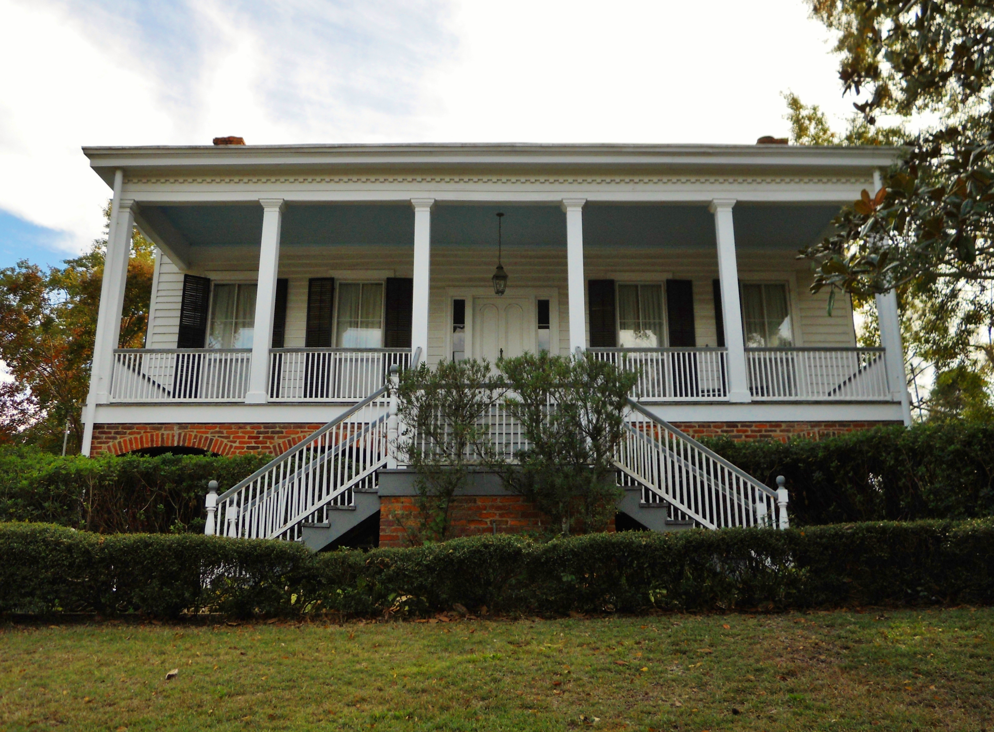 This is a photo of the Kiels-MacNab House in Eufaula, Alabama.